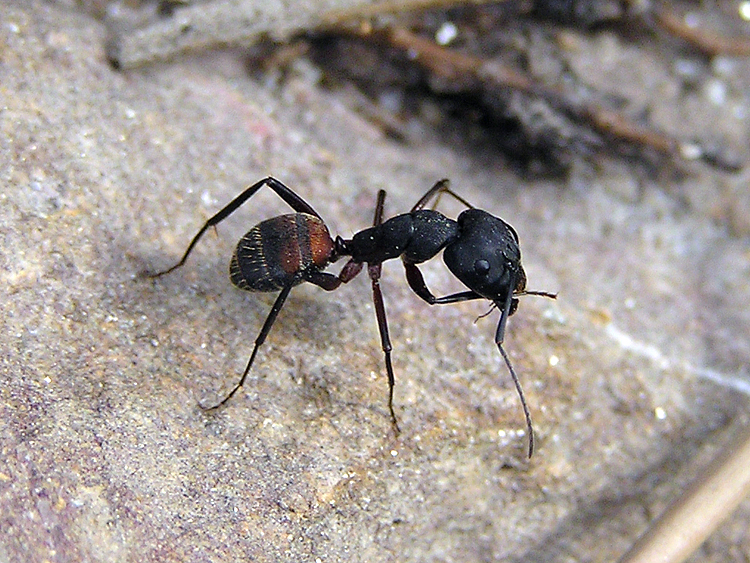 A Camponotus sp. worker ant